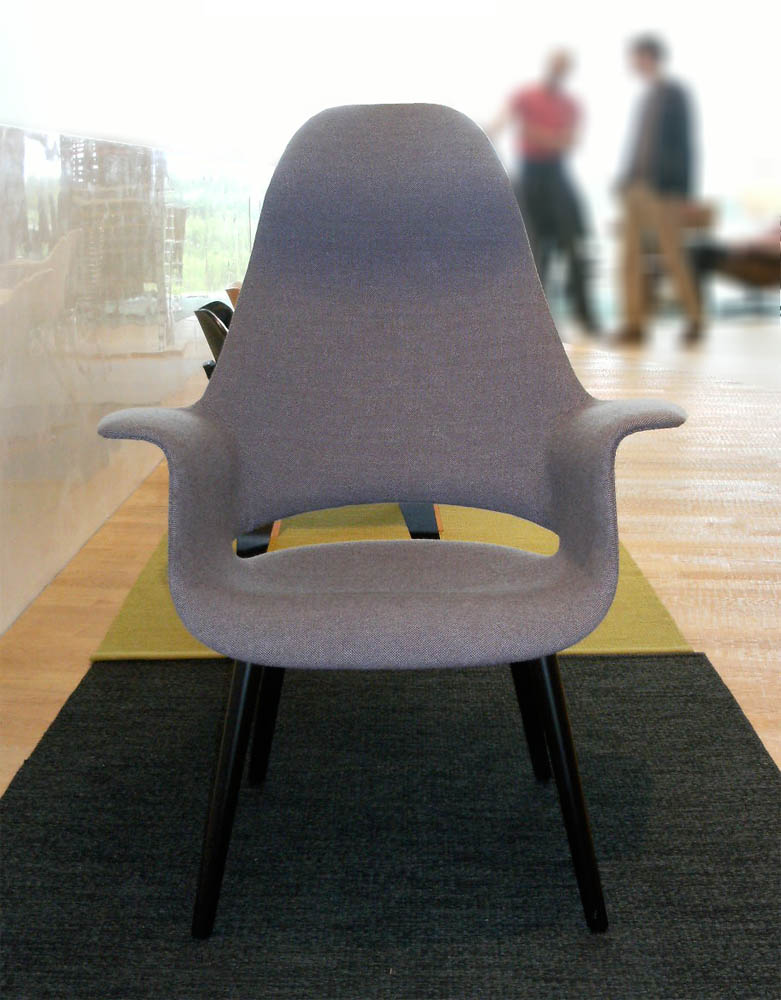 organic chair (highback version) by charles eames and eero saarinen (1940). produced by vitra since 2006.